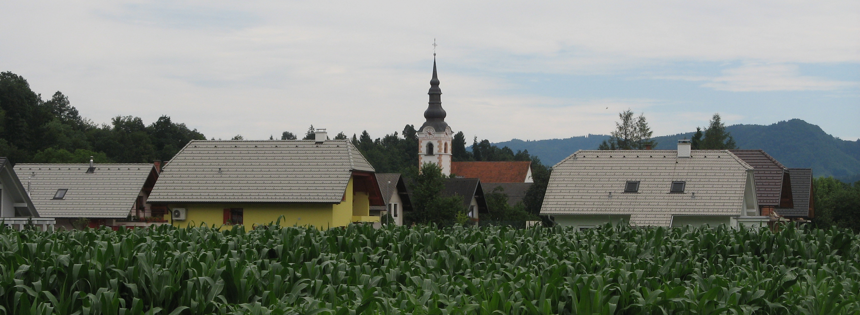 Mošnje, village in the Radovljica Municipality in Slovenia